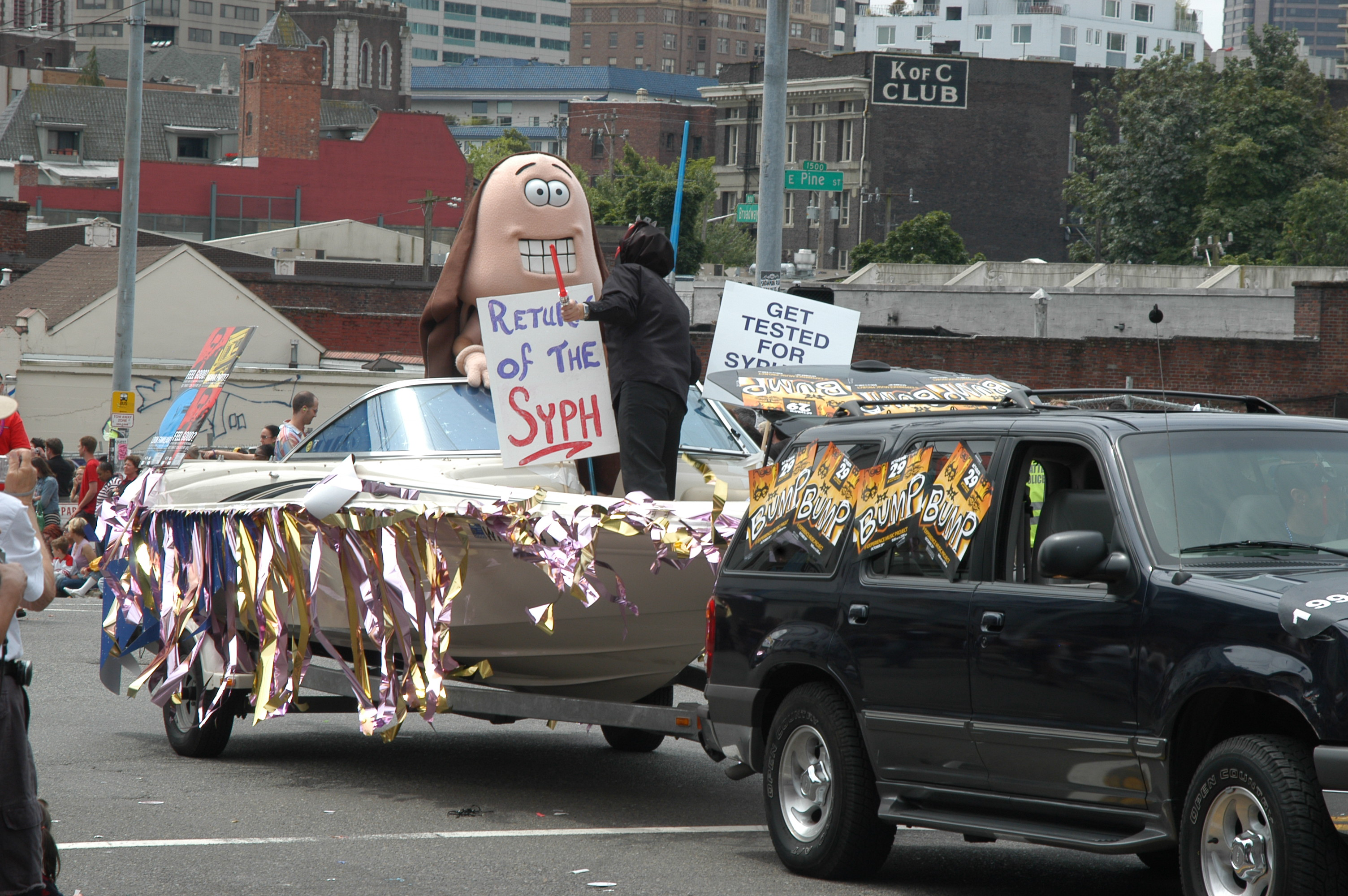 Star Wars themed parade float (er, boat) promoting syphilis testing. 2005 gay pride parade. Seattle, Washington, United States.